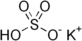 chemical structure of potassium bisulfate